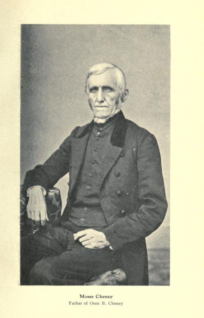 Moses Cheney, abolitionist, Free Will Baptist printer from New Hampshire